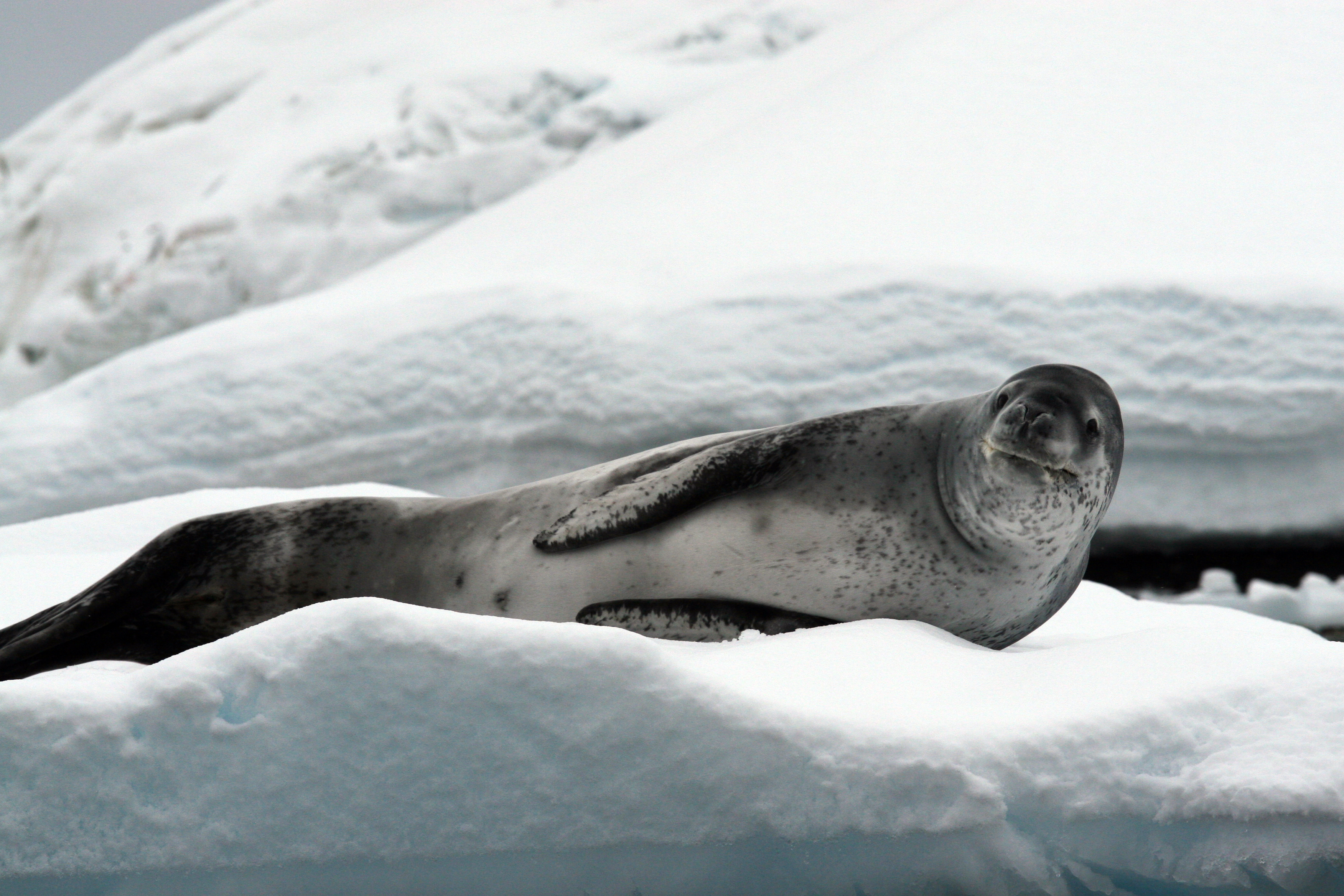 A Leopard Seal in Antarctica